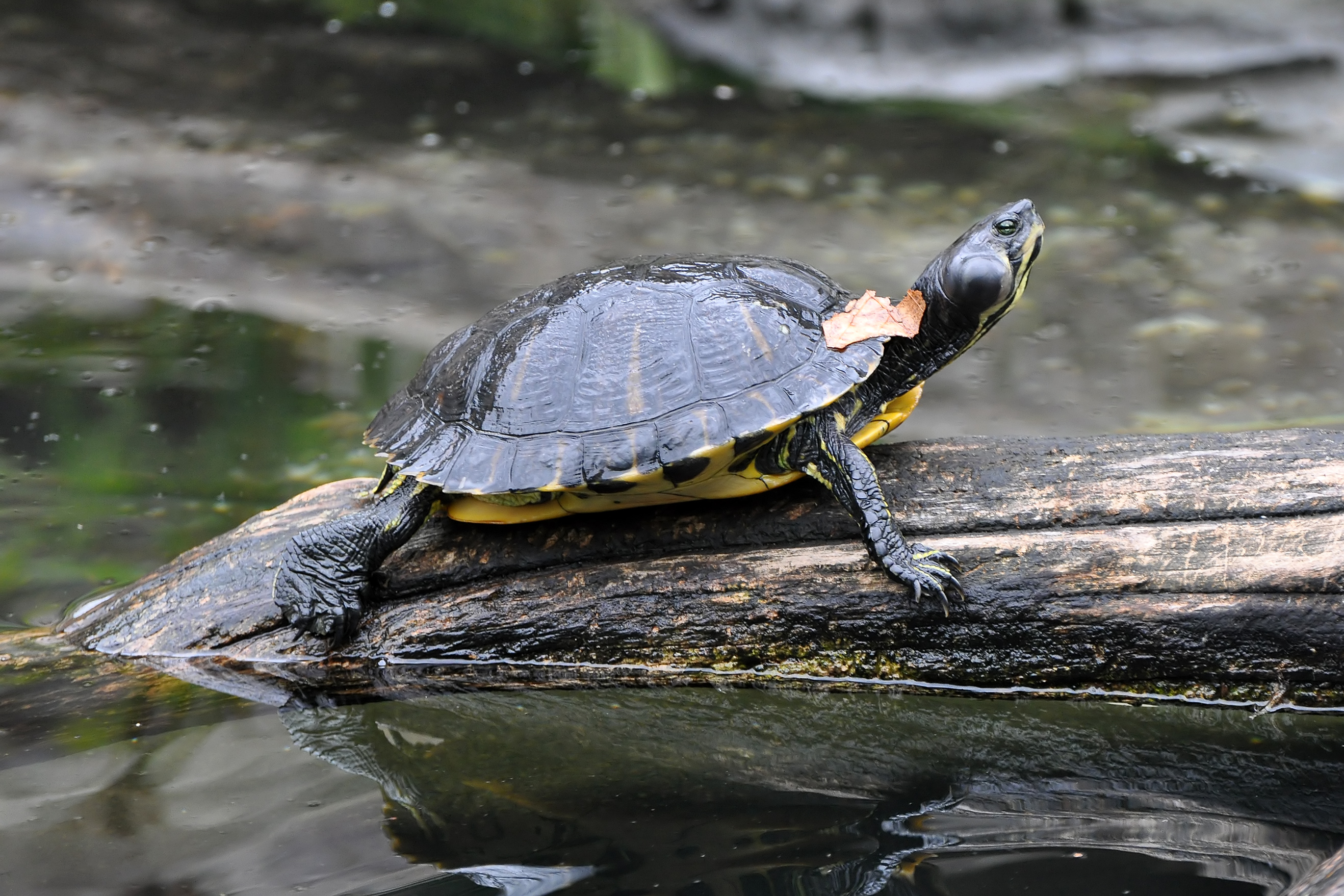 A Yellow-bellied Slider (Trachemys scripta scripta) basking on a log at Smithsonian National Zoological Park in Washington, D.C., USA.